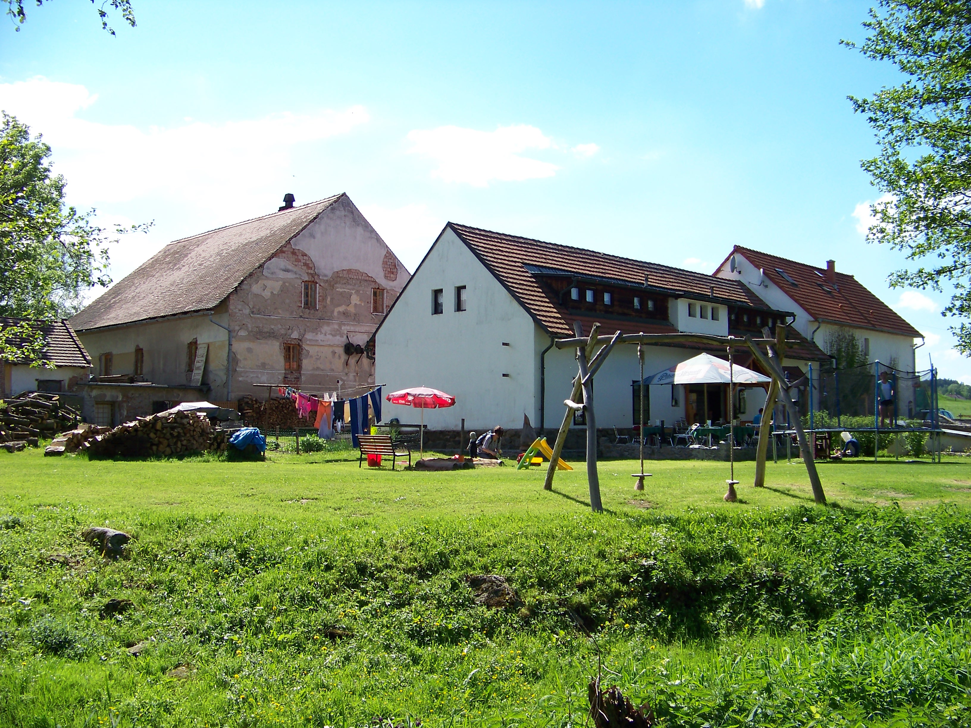 Jesenice-Vršovice, Příbram District, Central Bohemian Region, the Czech Republic. Strnadov Mill. - OpenStreetMap(Info)